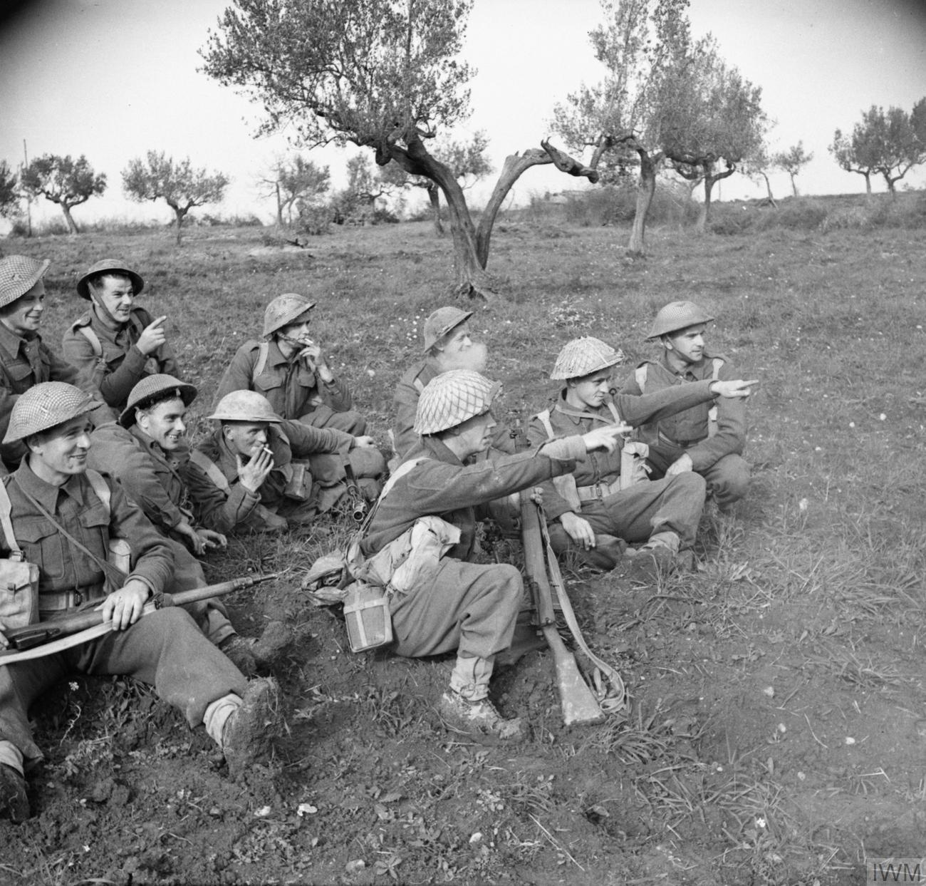 The British Army in Italy 1943 Men of the 5th Royal West Kents in an olive grove, 16 December 1943.